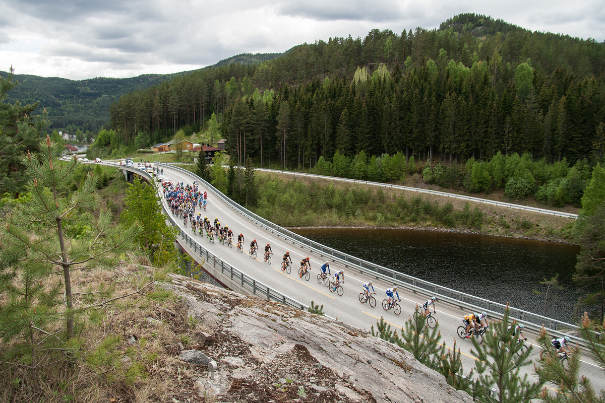 Peloton at stage 2 of Tour of Norway 2016 on Kviteseid bridge in Kviteseid.